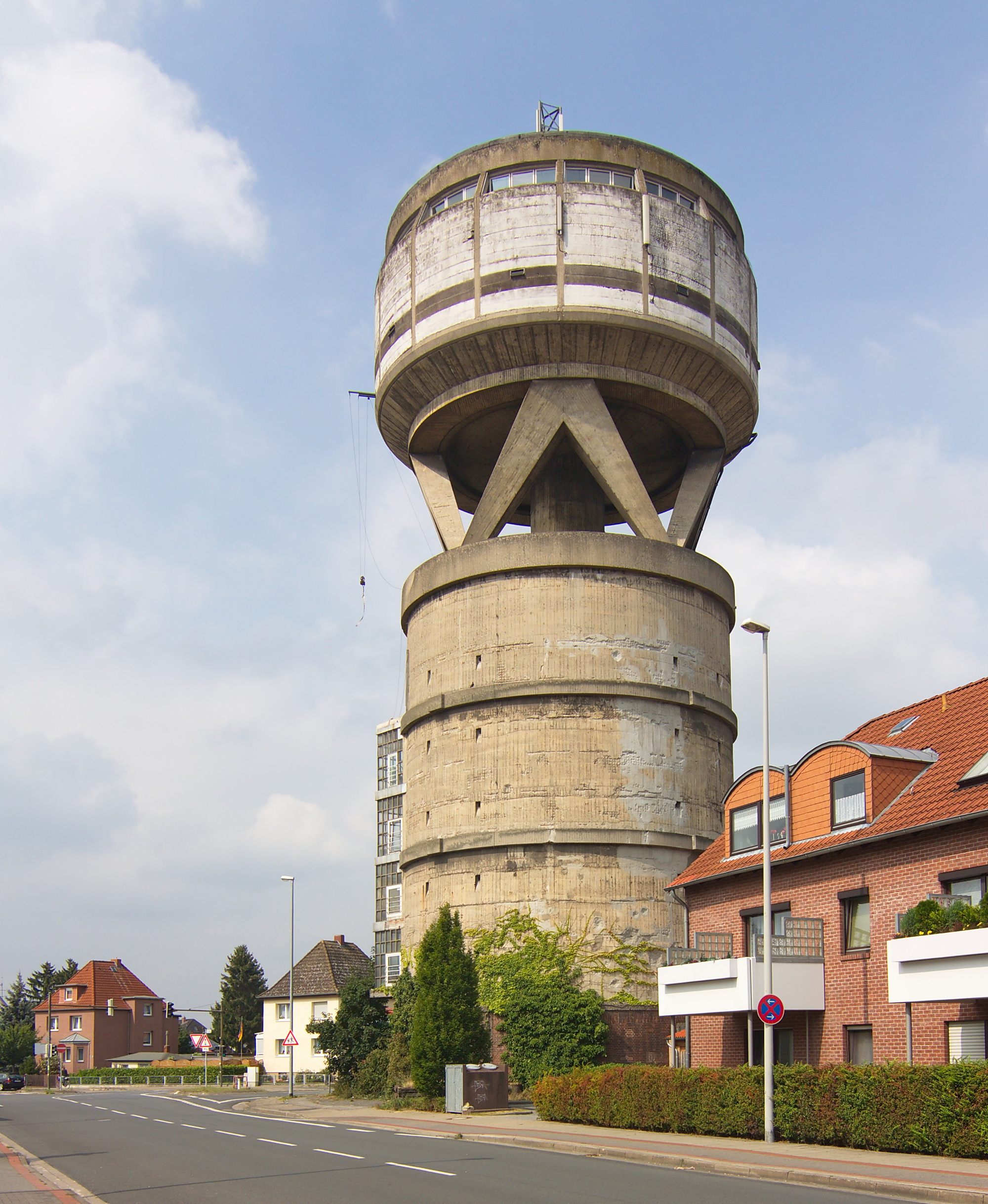 The water tower in Misburg (Hannover) was an air raid shelter during WW2. In 1960 he became a water tower. In 1990, he was no longer used as a water tower and sold. Now he offers four floors practice rooms for local bands.